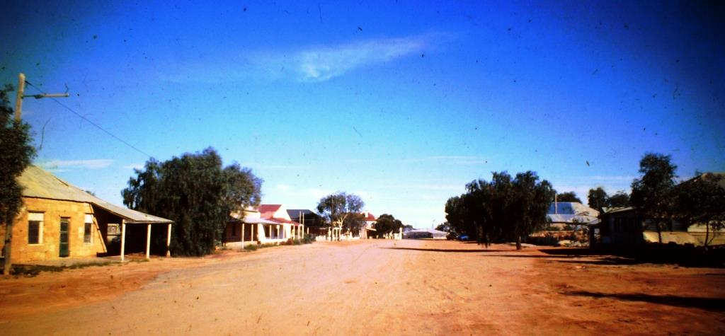 i took this photo in 1976 on a trip to far west N.S.W.